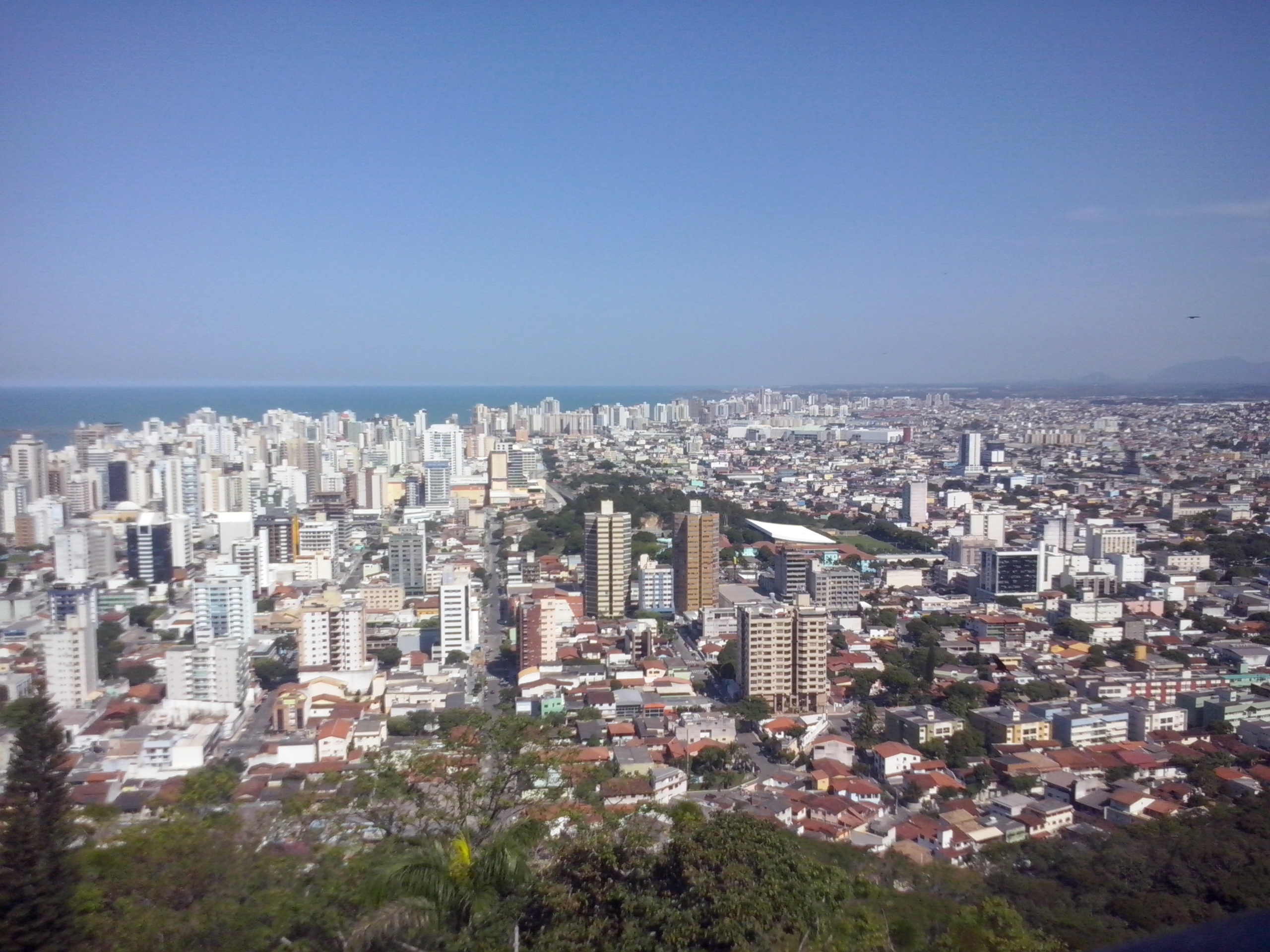 Partial view of Vila Velha, Espírito Santo, Brazil, seen from of the Convento da Penha.